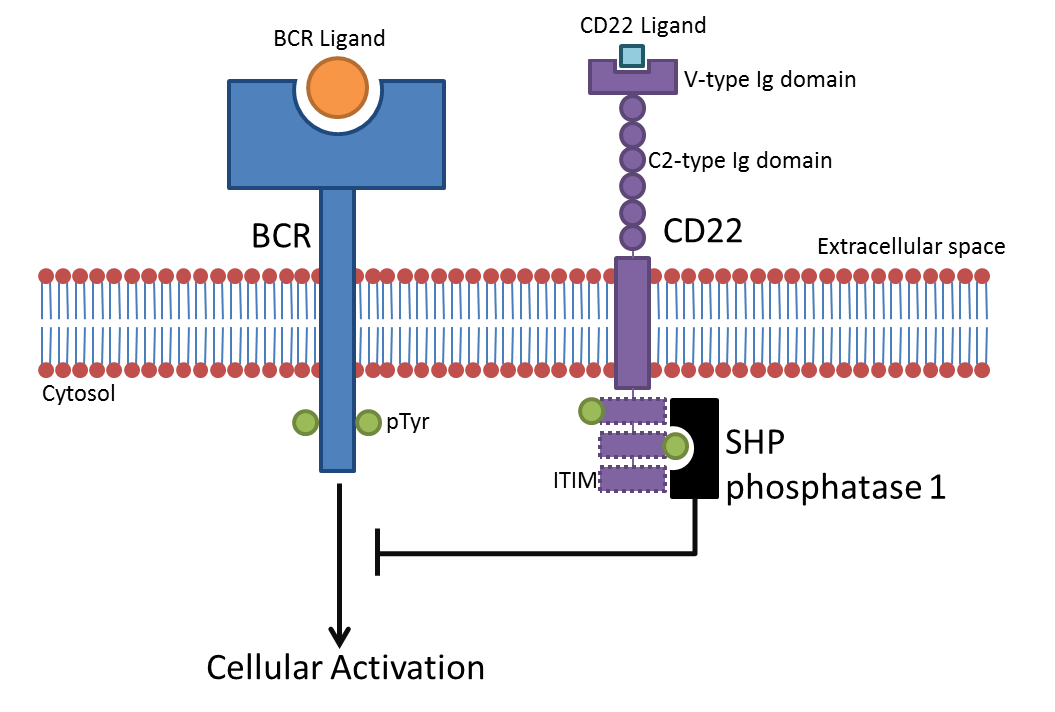 A schematic representation, drawn with Powerpoint, showing the B-cell receptor leading to cellular activation and CD22 inhibiting this signalling. Illustrates the simple representation of the domains of CD22 including the C2 and Variable-type Immunoglobulin domains.